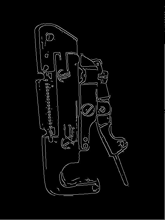 F1A glider hook after applying Deriche edge detector with parameters alpha = 0.8, low_treshold = 26, high_treshold = 41.